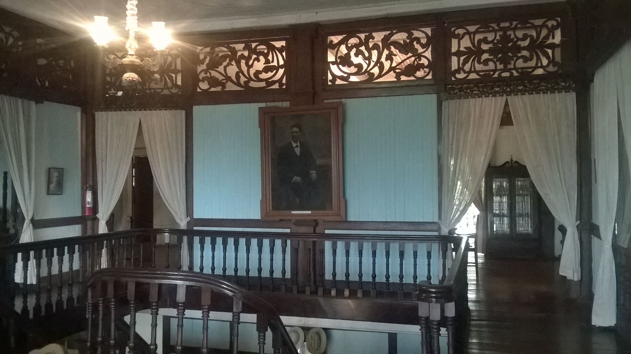 The Second Floor where lot of antiques are stored.